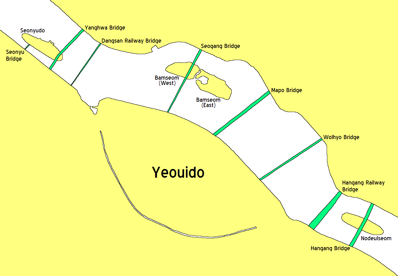 Map of the surrounding area of Yeouido, Seoul, South Korea.